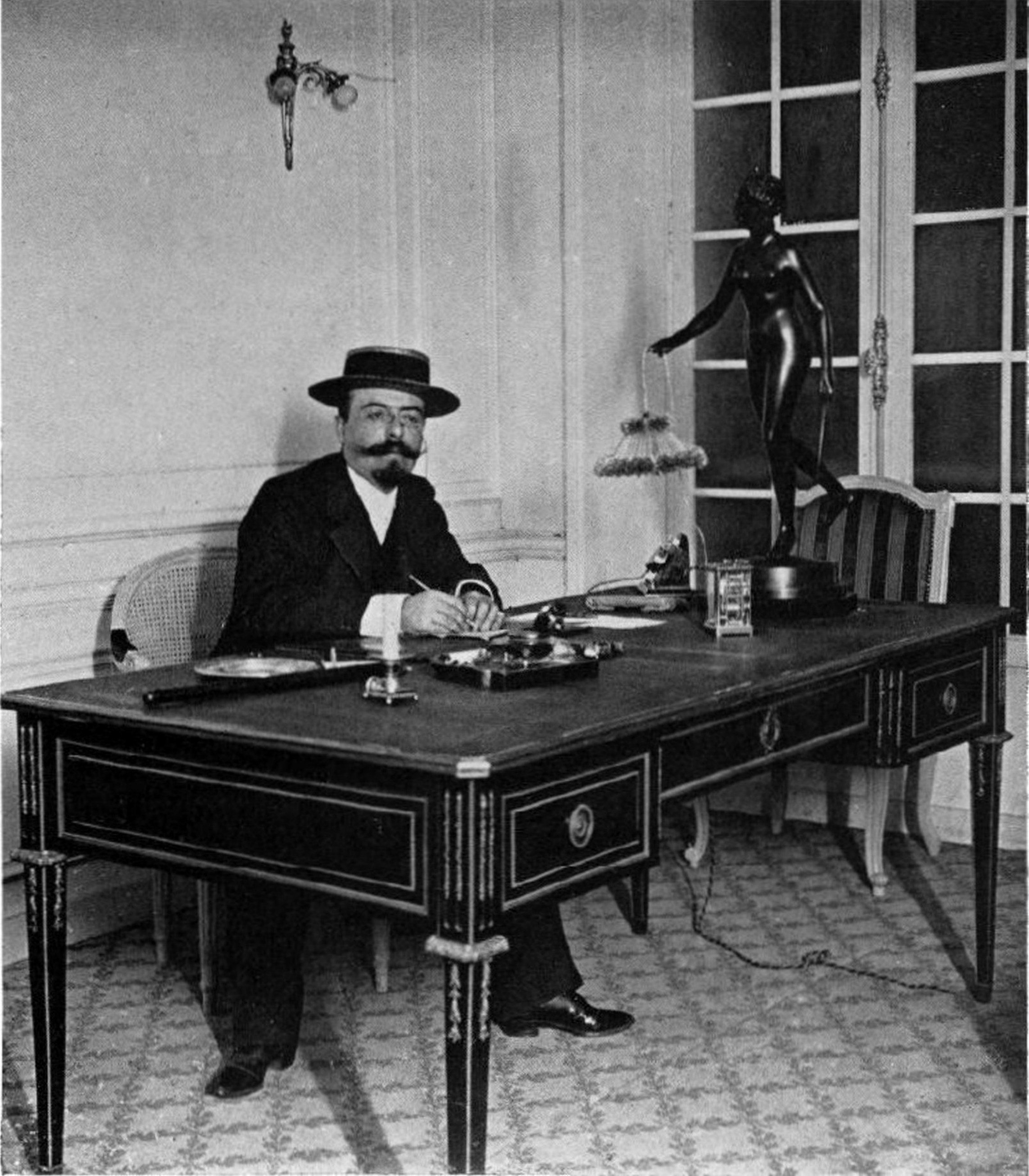 Fernand Samuel, , known as Samuel the Magnificent, is the pseudonym of Adolphe Amédée Louveau, born 2 July 1862 in Rome and died on 21 December 1914 in Cap-d'Ail at Villa Catiche. He is the lover of the actress Ève Lavallière. Fernand Samuel is the director of Théâtre des Variétés from 1892 to 1914. He is pictured here in his office at the Théâtre des Variétés in 1900.